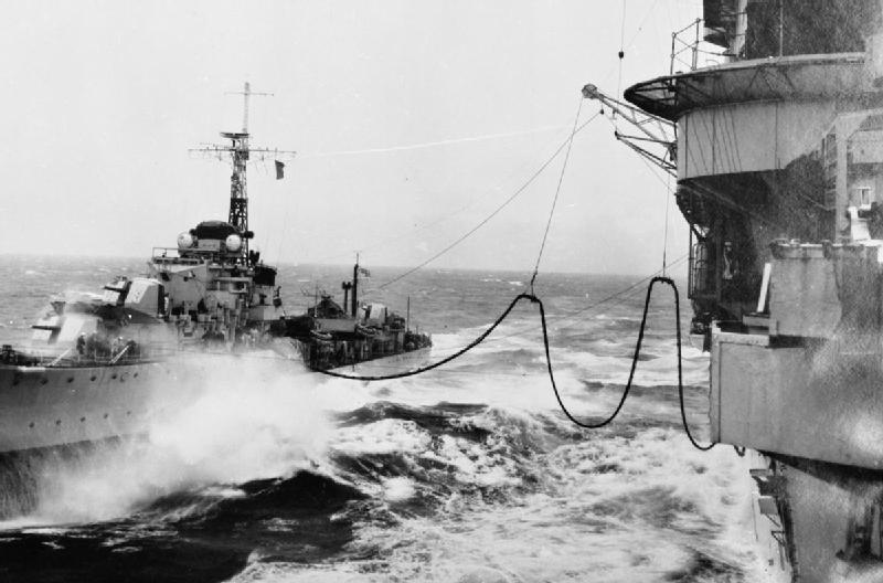 Royal Navy C class destroyer HMS Cossack (R57) refuels in heavy seas off Korea